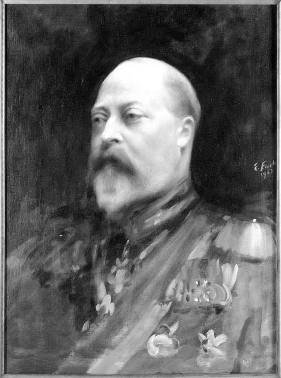 Portrait in oils of Edward VII by Emil Fuchs. Brooklyn Museum